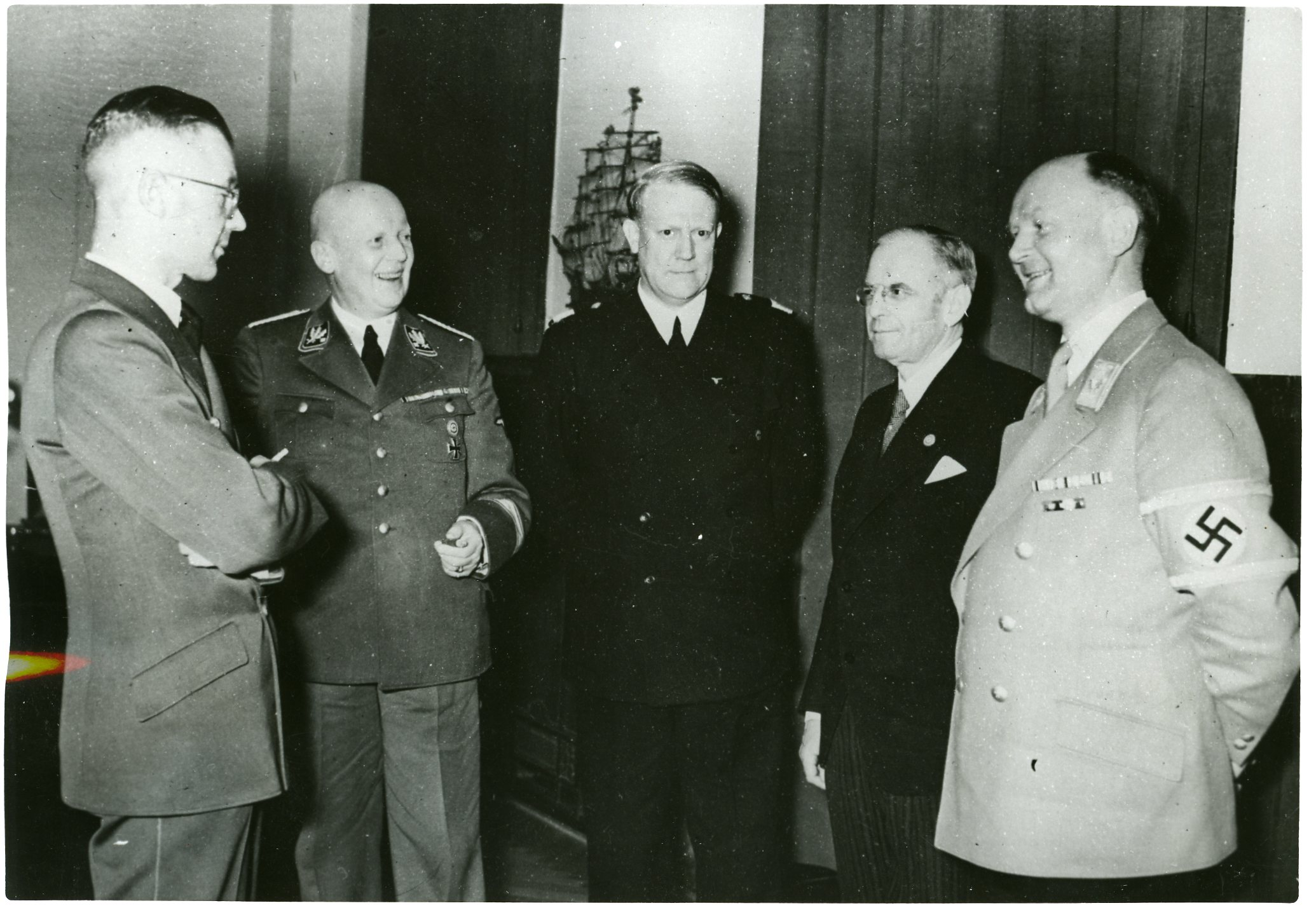 Flickr-album of 55 photos, description by Riksarkivet (National Archives of Norway): Vidkun Quisling, head of the collaborationist government in Norway from 1942 to 1945 during the German occupation in World War II, made ​​several trips to Germany in the period 1939-1945, and he had a total of 11 meetings with Adolf Hitler. Four of the meetings were state visits, and one of them took place in Berlin on 12-15. February 1942. In addition to the newly appointed Minister President, the group consisted of ministers Hagelin, Fuglesang and Stang and also Thorvald Thronsen, chief of staff in the Hird - the party's paramilitary organisation modelled on the Nazi German Sturmabteilungen.